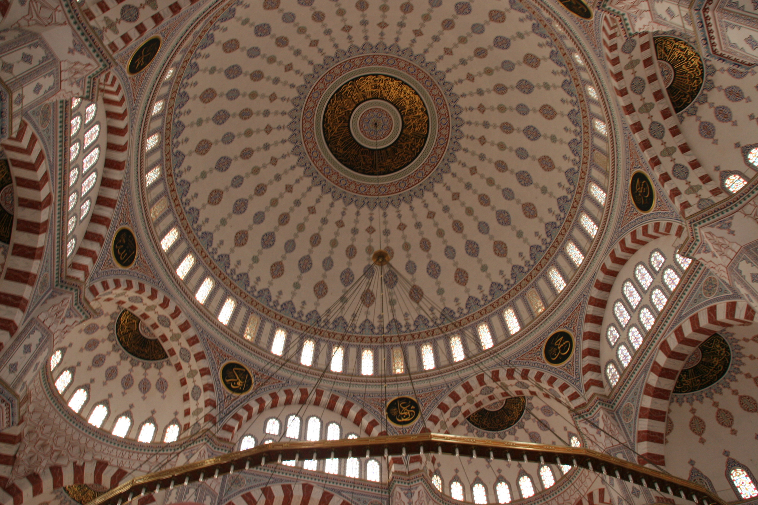 Interior view of Sabancı Central Mosque in Adana, Turkey.